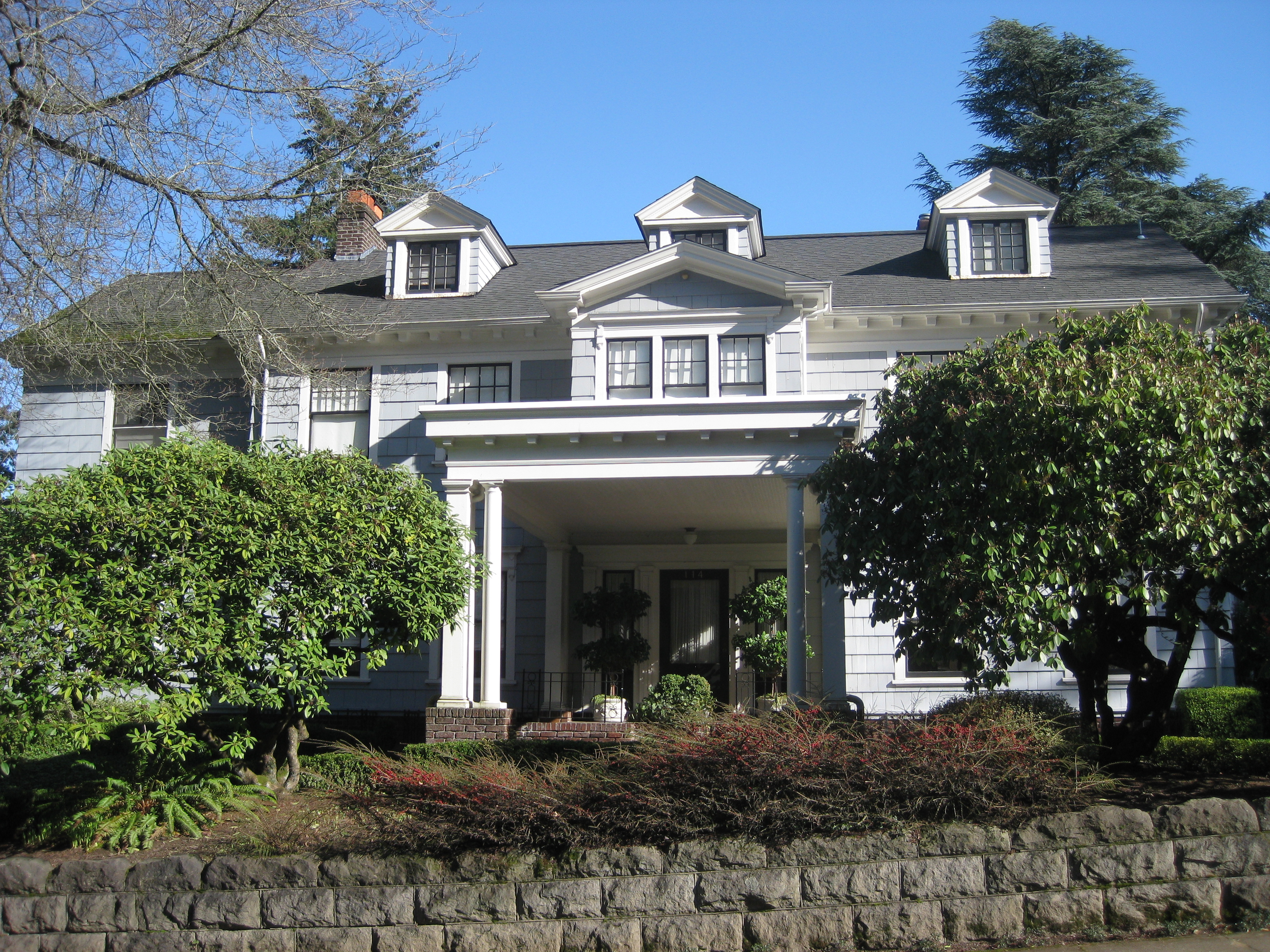 The historic Abraham Tichner House (built 1918) located at 114 SW Kingston Avenue in Portland, Oregon, United States, is listed on the US National Register of Historic Places (NRHP). NRHP reference number 00001022